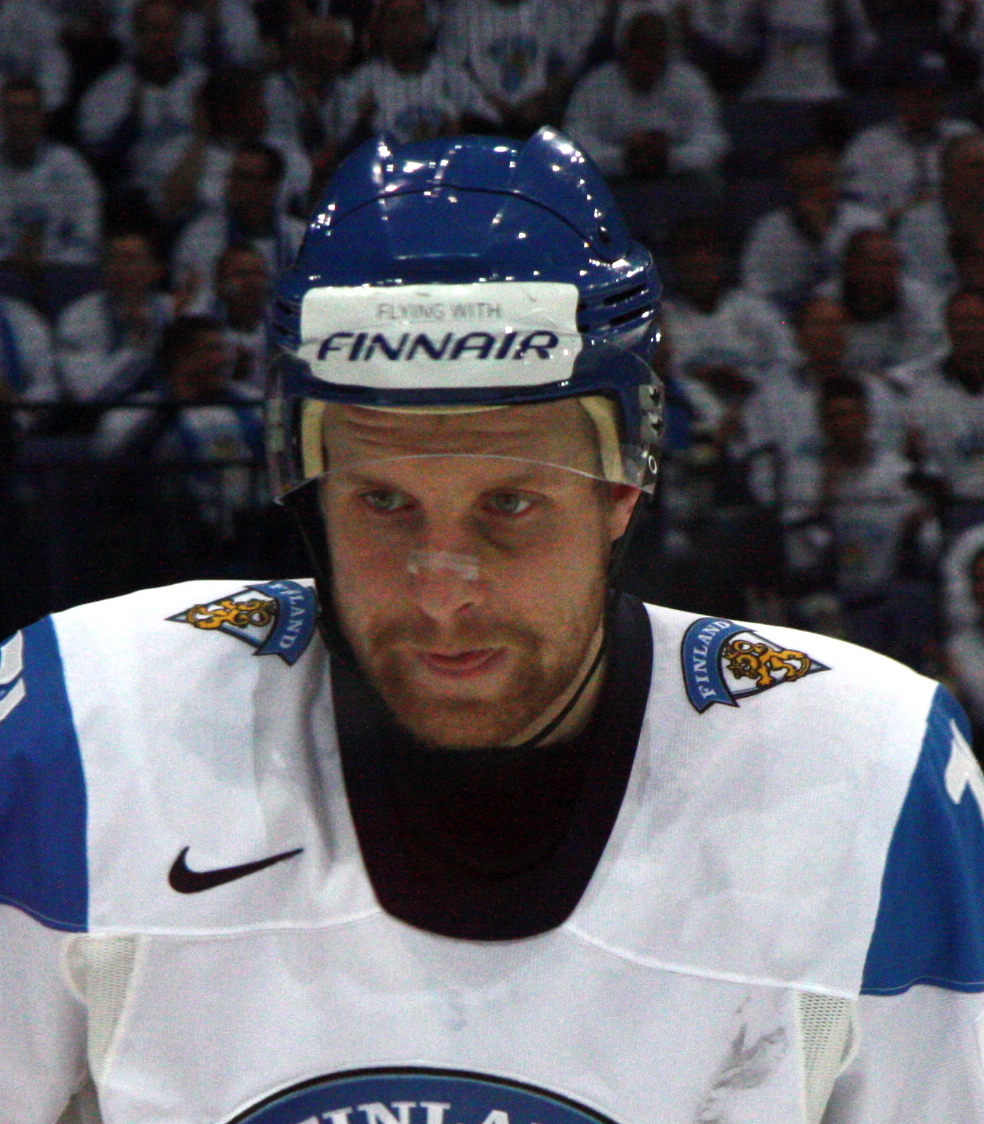 Leo Komarov, Finland-Russia IHWC 2012 Semifinal cropped for infobox